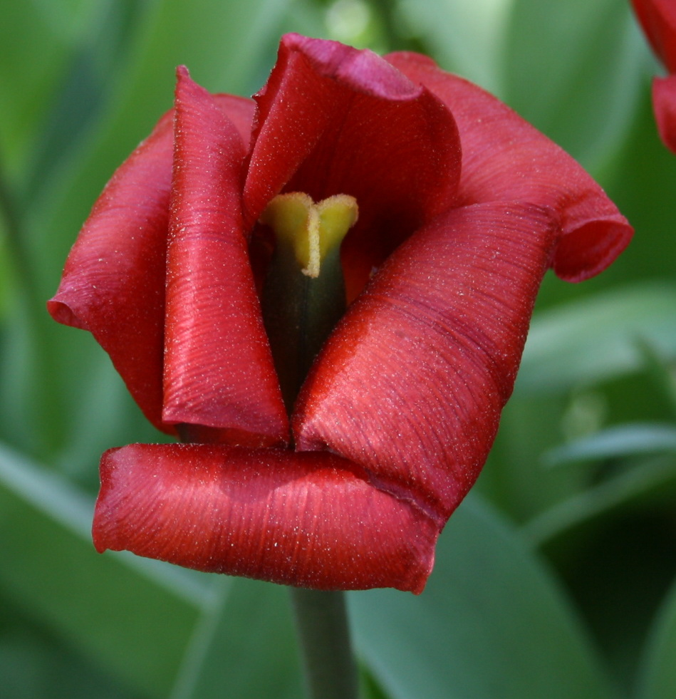 Tulipa kaufmanniana-Hybride Showwinner